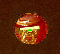 This figure shows the safety circuit under a plastic window on a lithium battery pack.